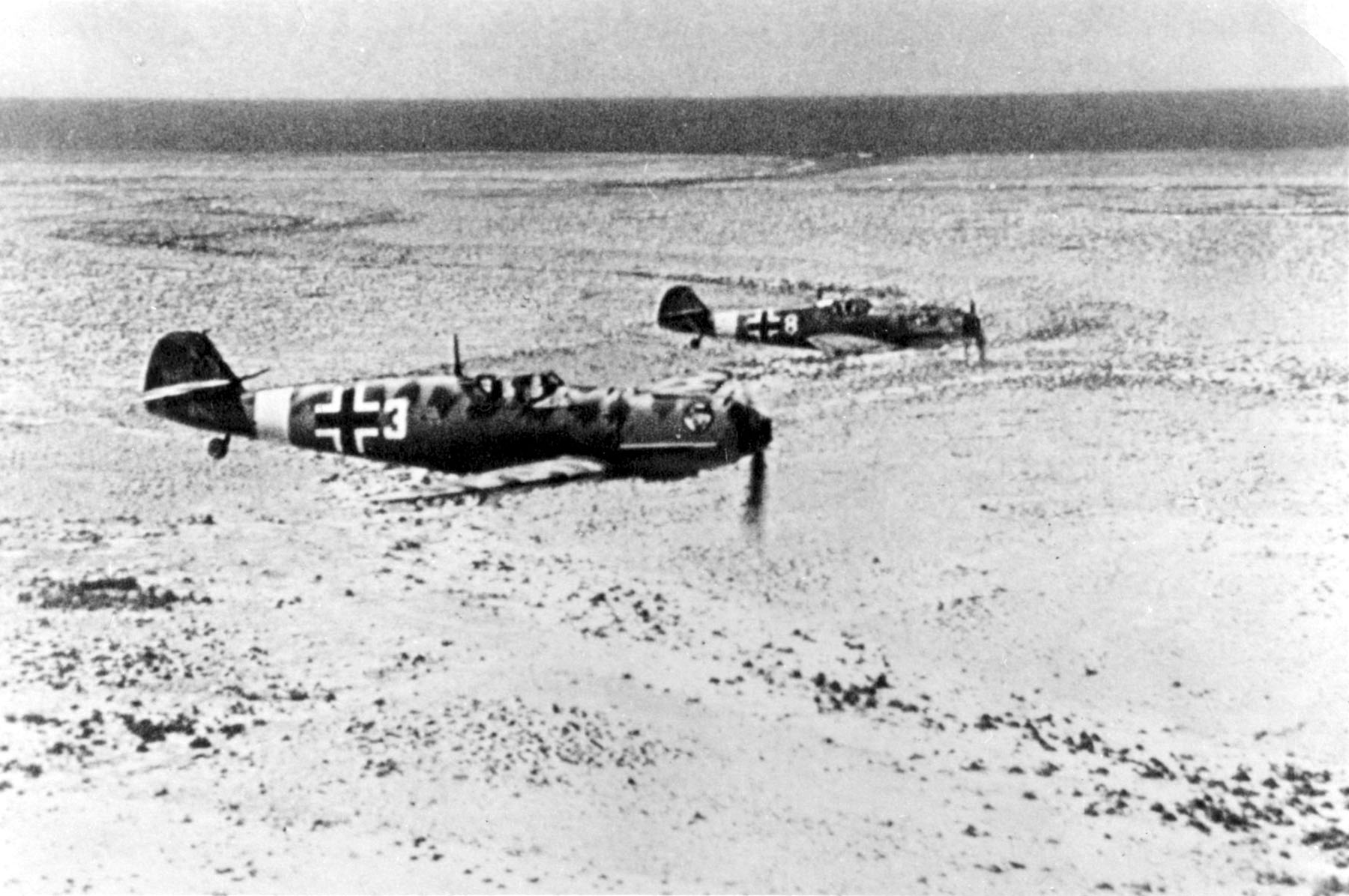 German Messerschmitt Me 109E-4/Trop fighters from I/Jagdgeschwader 27 (1st Group, 27th Fighter Wing) in flight over North Africa, circa 1941.